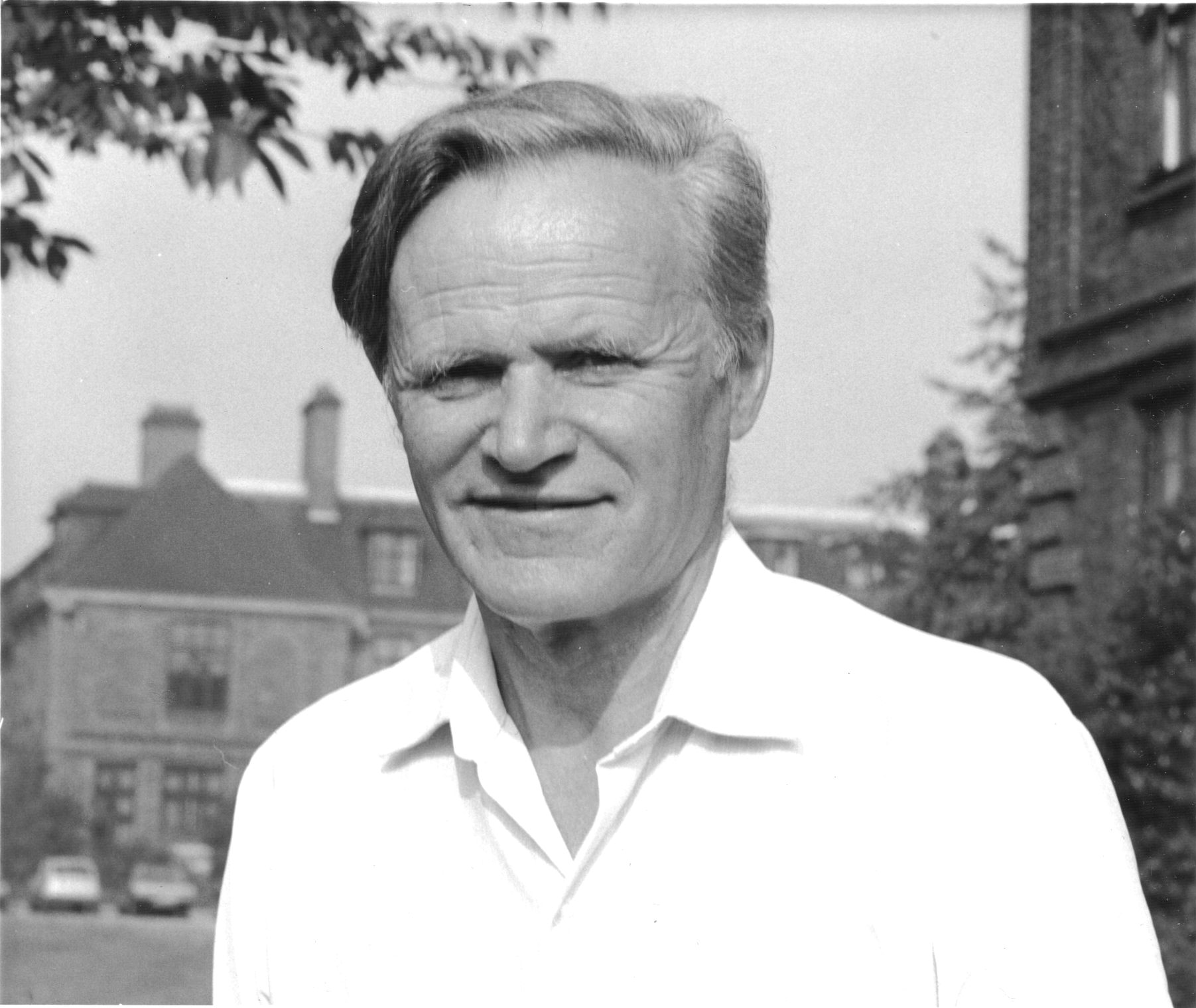 Jay Appleton